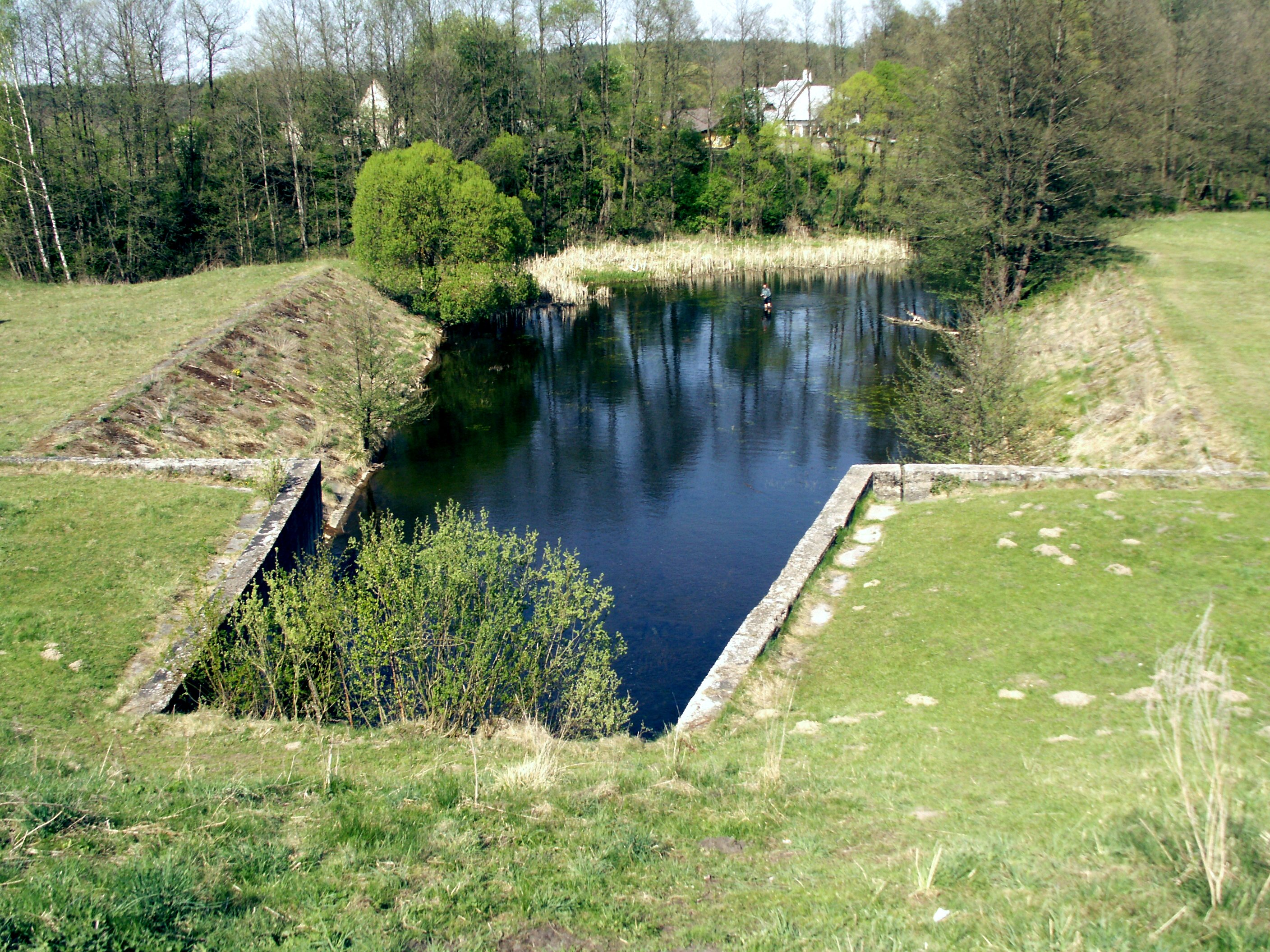 Krūminių hydroelectric power plant, Varėna district, Lithuania